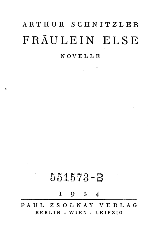 This is a scan of the historical document: Fräulein Else